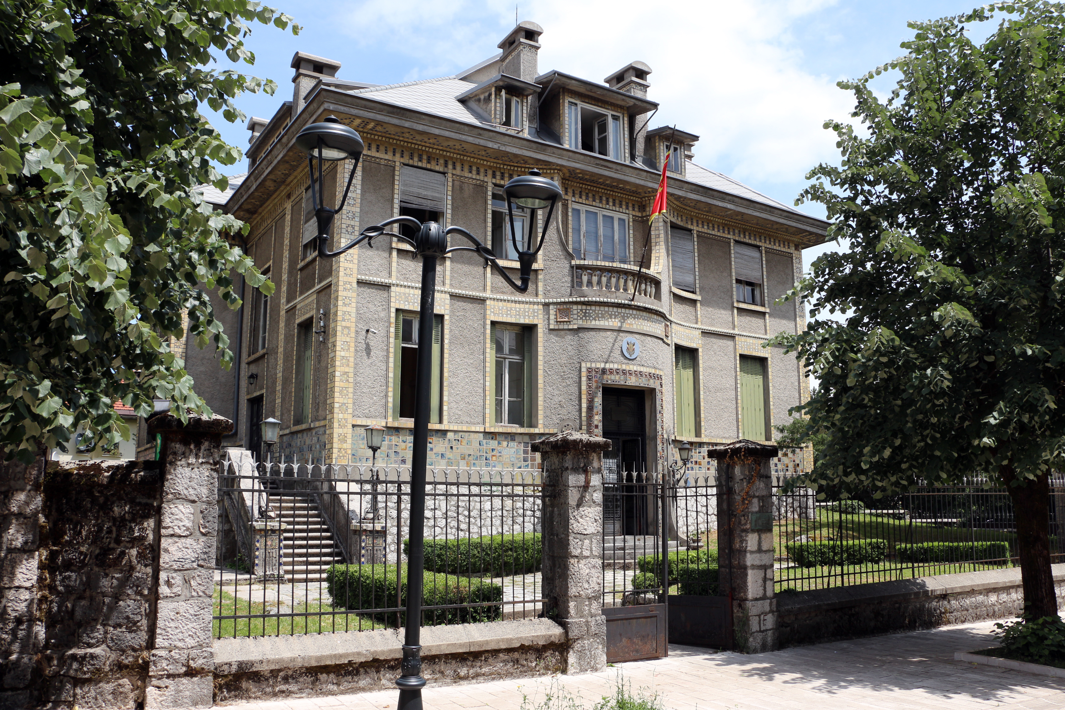 Former French embassy in Cetinje